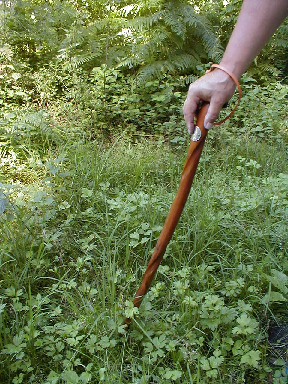 "Ziegenhainer", traditional walking stick from Jena/Germany, in use